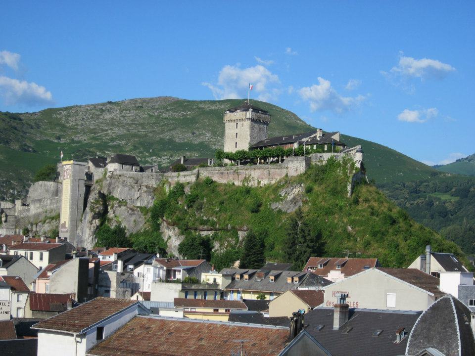 Lourdes (Hautes-Pyrénées, France) - View from my balcony on the 5th floor of Residence Le Lapacca, showing north and east (clock side) faces of the tower.